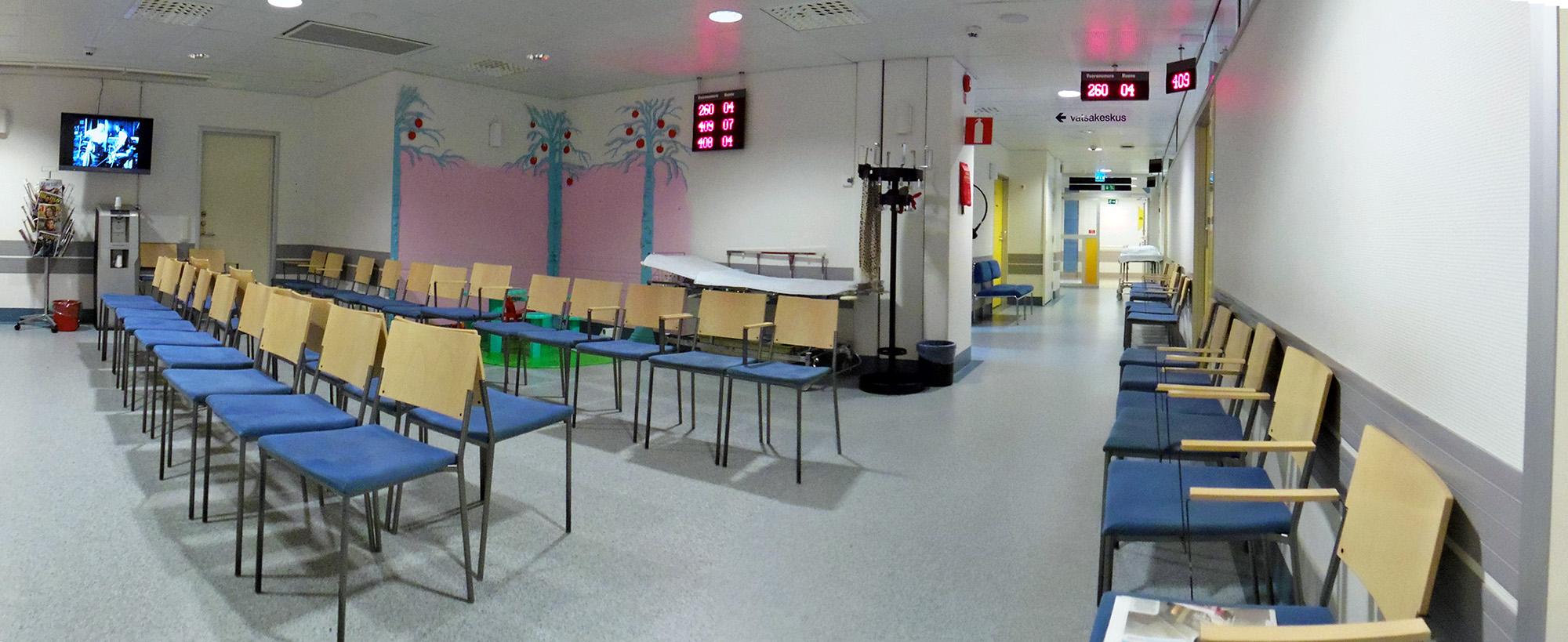 Waiting room of Fimlab at Central Finland Central Hospital, Jyväskylä.